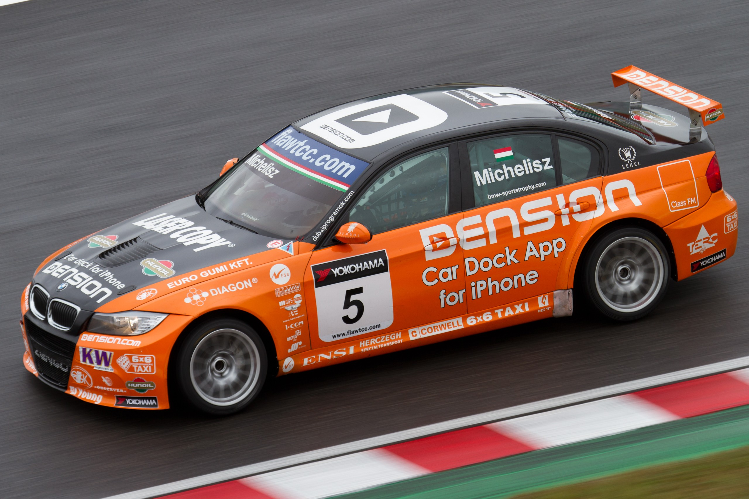 World Touring Car Championship 2011 Race of Japan: Norbert Michelisz (Zengõ-Dension Team) during the 1st practice session on Saturday.